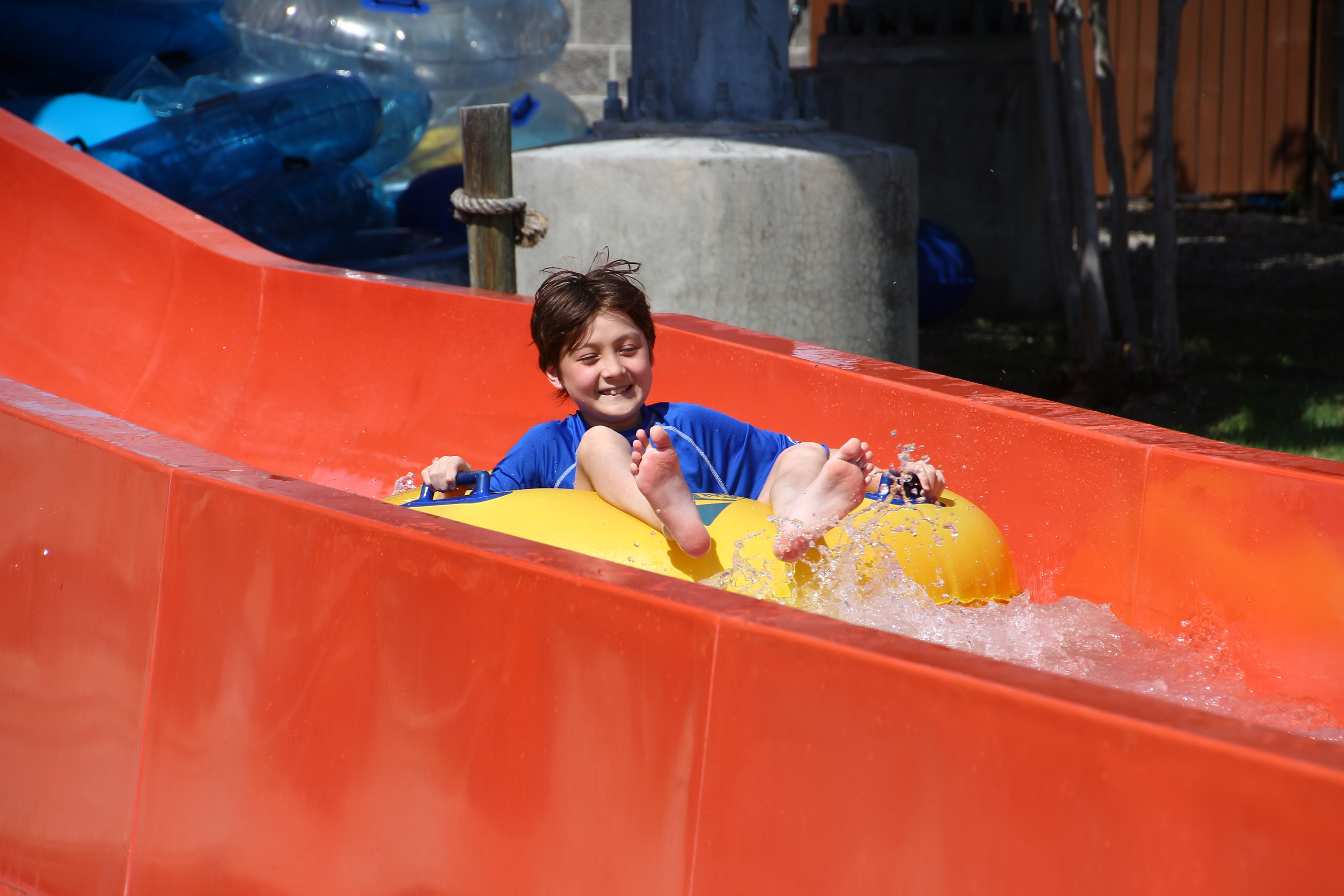 Boy riding a water tube slide ride at a water park.